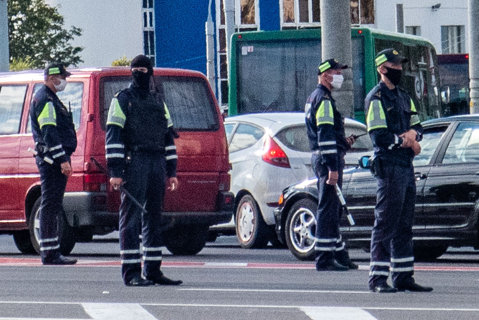 3 traffic policemen and 1 government trooper (note that he's got completely different police baton). They blocked traffic on Niezaliežnasci avenue on 13 August 2020. Minsk, Belarus